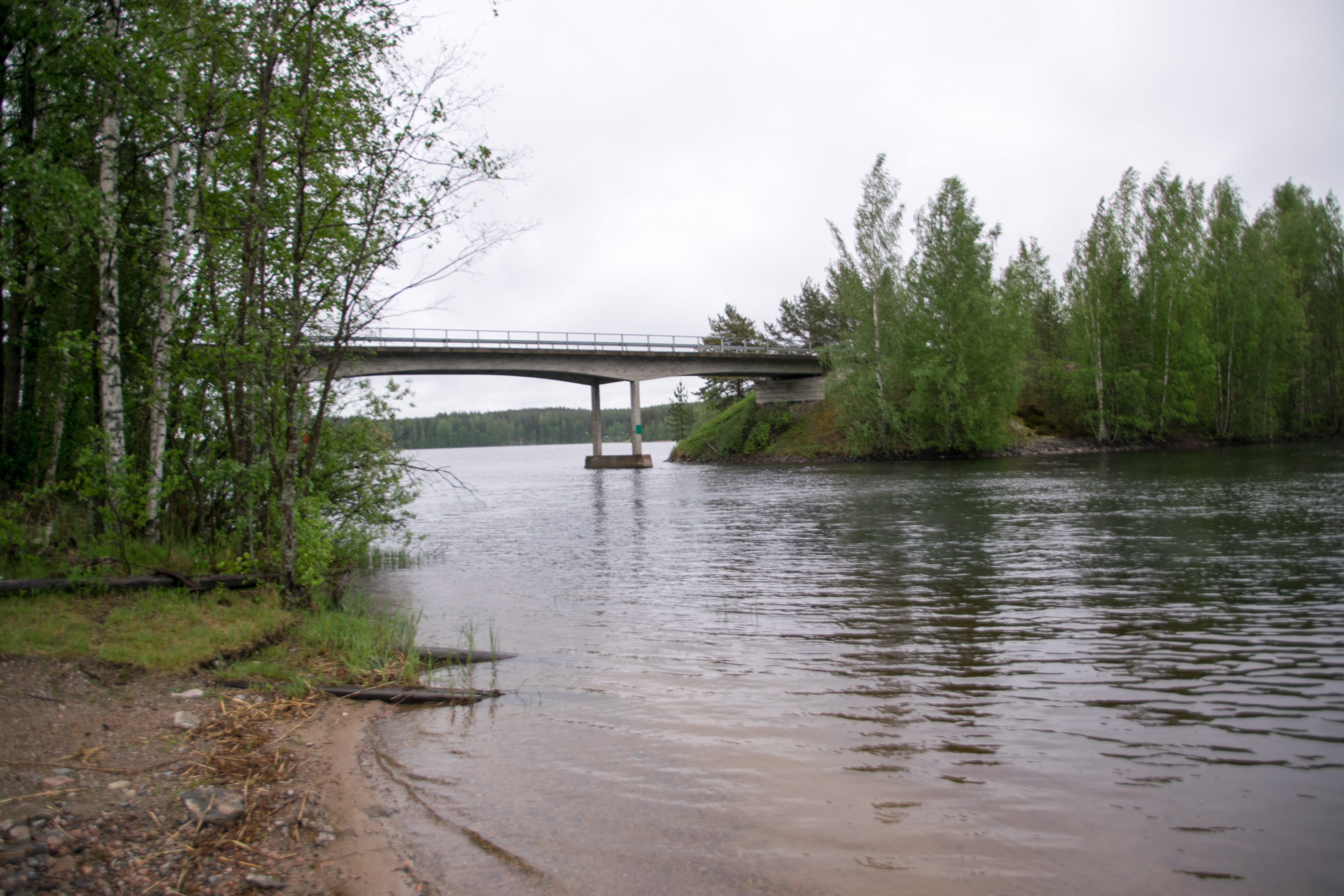 Sitkoinleuvansalmi canal in Puumala, Finland.